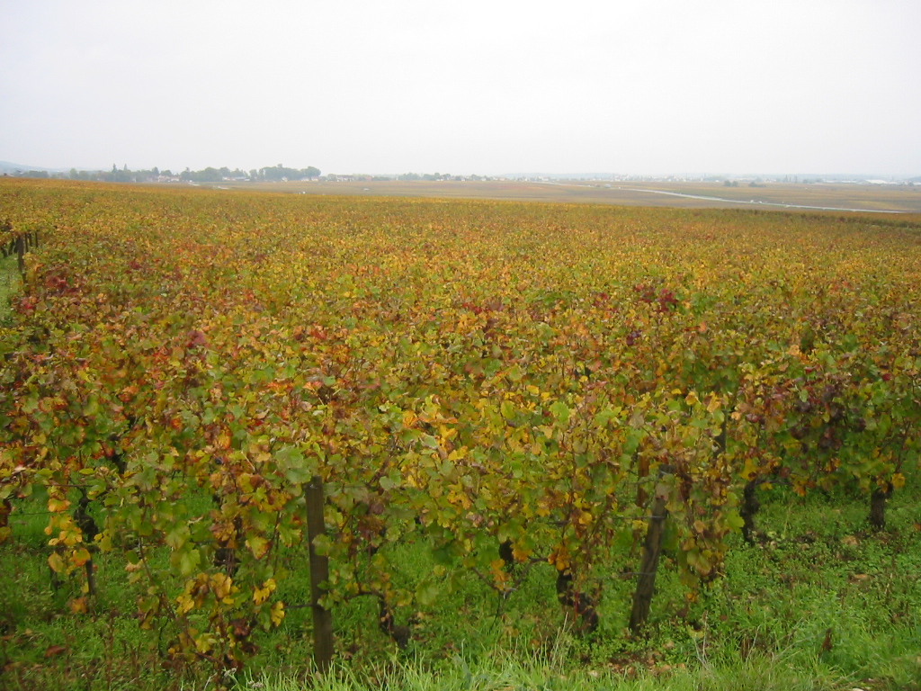 Vineyards in Gevrey Chambertin in Burgundy in autumn